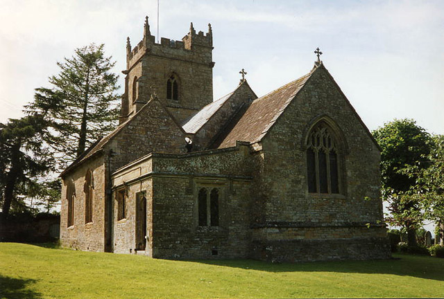 South Cadbury: church. Dedicated to St Thomas a Becket. The chancel, nearest the camera, was built in 1874, but much of the church dates from the 14th and 15th centuries